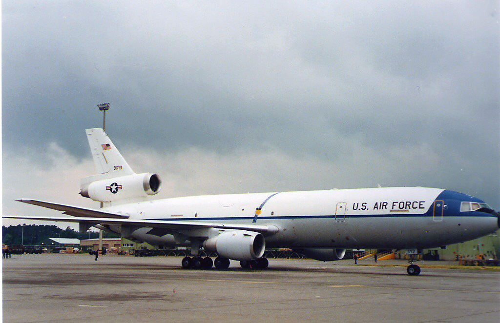 A U.S. Air Force McDonnell Douglas KC-10A Extender (s/n 79-1713) at Ramstein Air Base, Rhineland-Palatinate (Germany) on 24 June 1984.